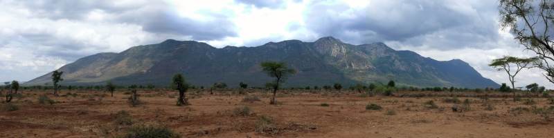 Pic taken by me 2007, Kenya Måns Waldenström